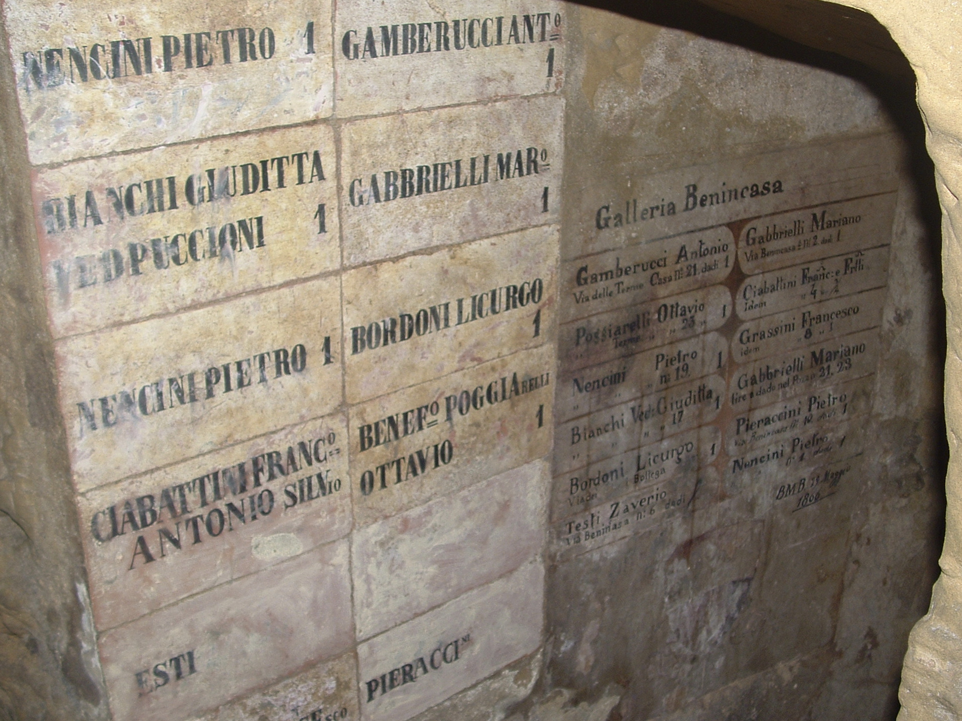 Sign of a so called Dado of the Bottini di Siena, Fonte Gaia Channel, Siena, Tuscany, Italy